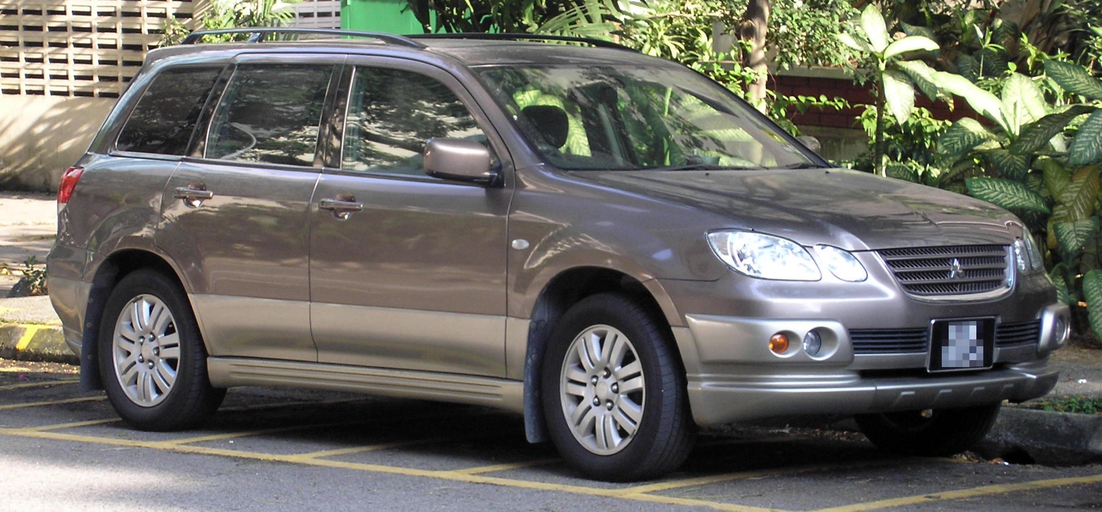 Front-side shot of a first generation Mitsubishi Airtrek, in the Golden Triangle, Kuala Lumpur, Malaysia.